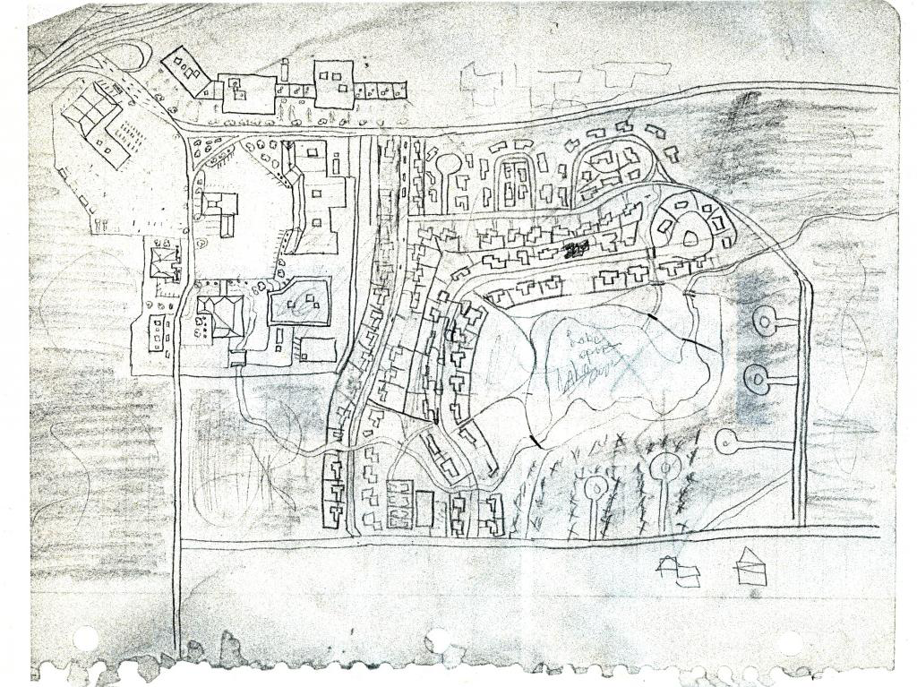 "Punishment" map discovered during the Original Night Stalker investigation.